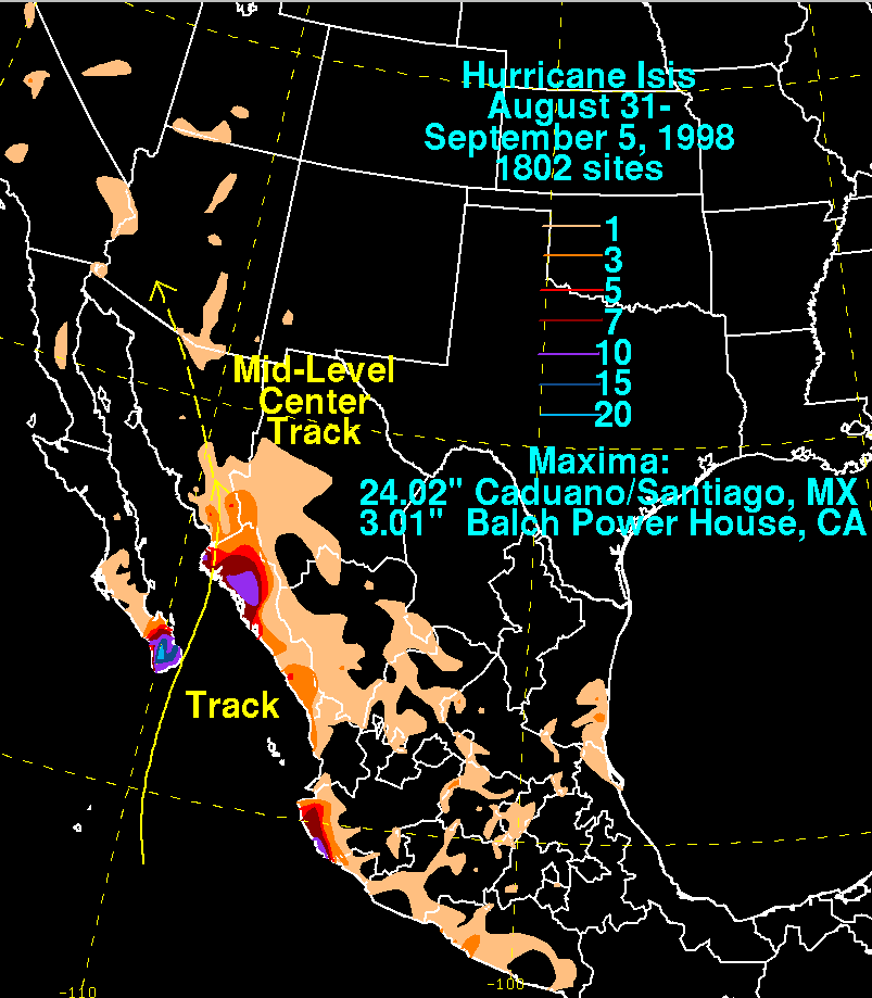 Rainfall produced by Hurricane Isis during September and October 1998.